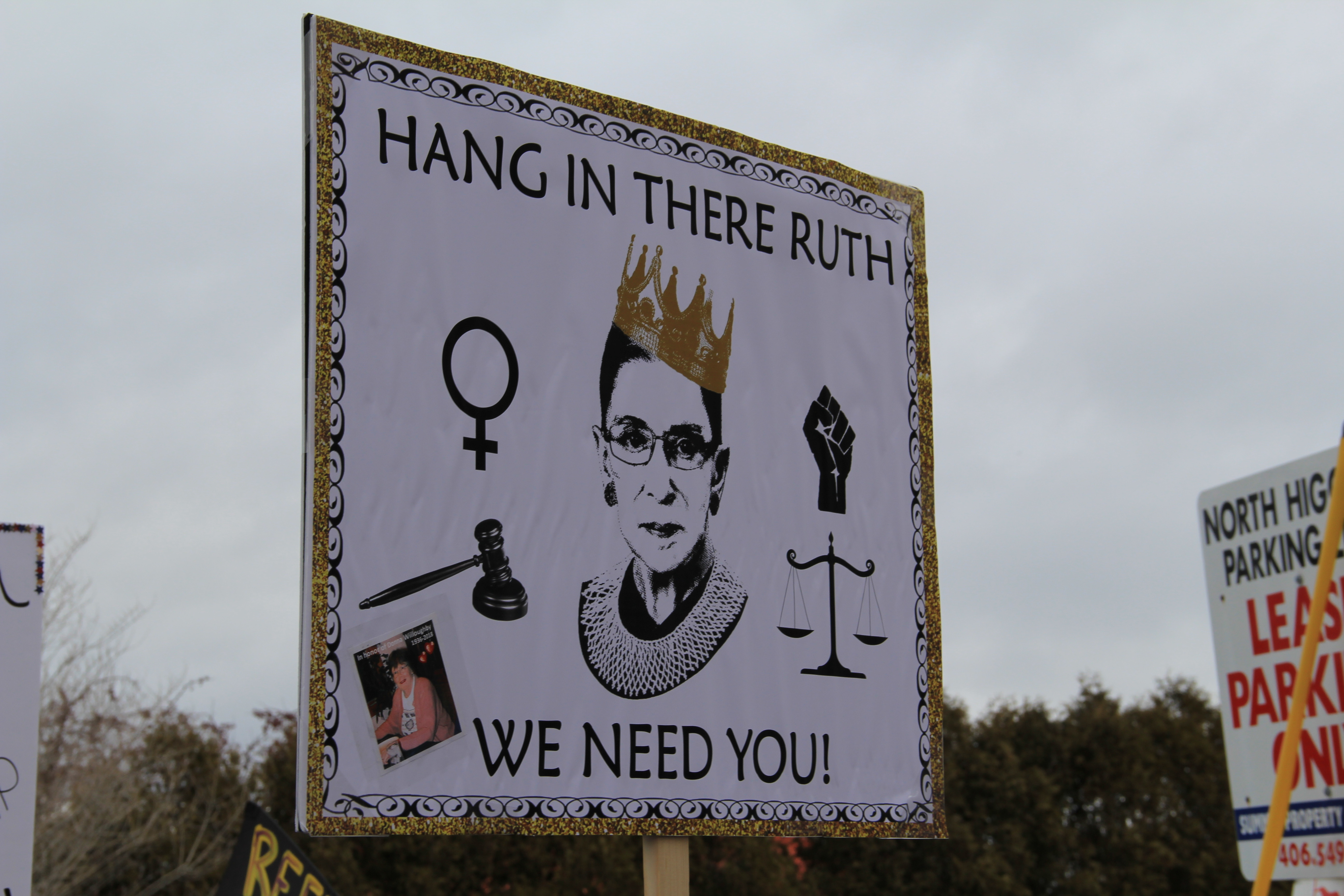 2018 Women's March in Missoula, Montana.